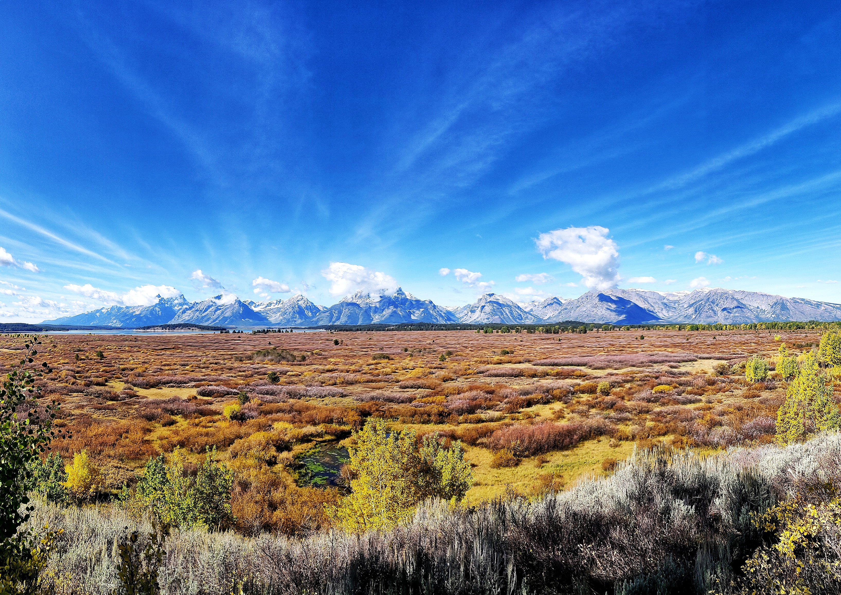 view of the Grand Tetons from Jackson Lake Lodge